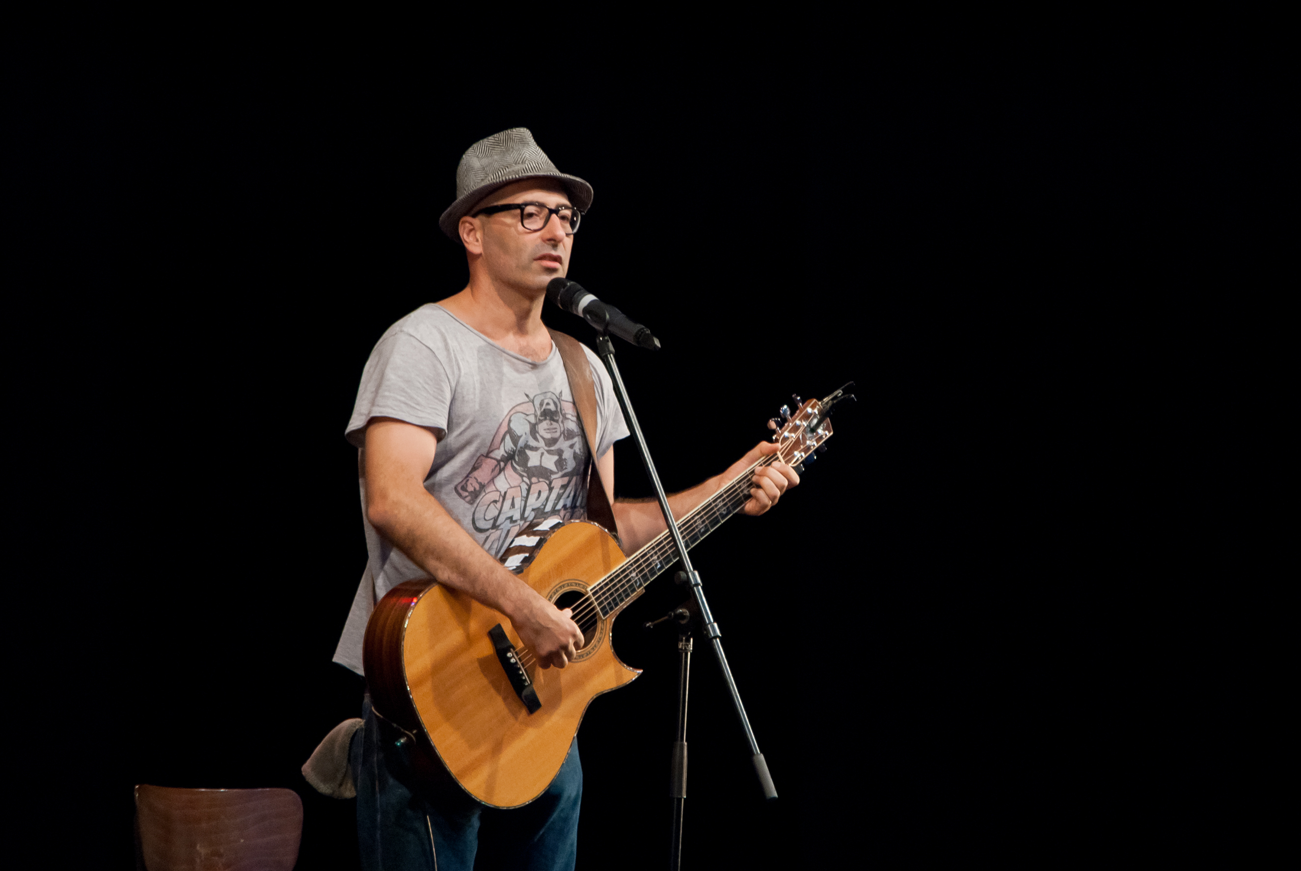 The Berlin comedian Philip Tägert, stage name “Fil”, at 36th International Comedy Arts Festival in Moers (North Rhine-Westphalia, Germany) This photograph was taken with a Nikon D3000.